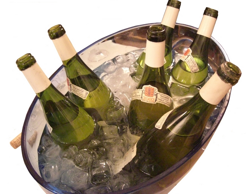 Domaine Dauvissat Chablis 1er Cru La Forest 1996, 2000, 2002, 2004, 2005 i 2006 From the burgundy wine region of france. Wine in an ice bucket chilling.